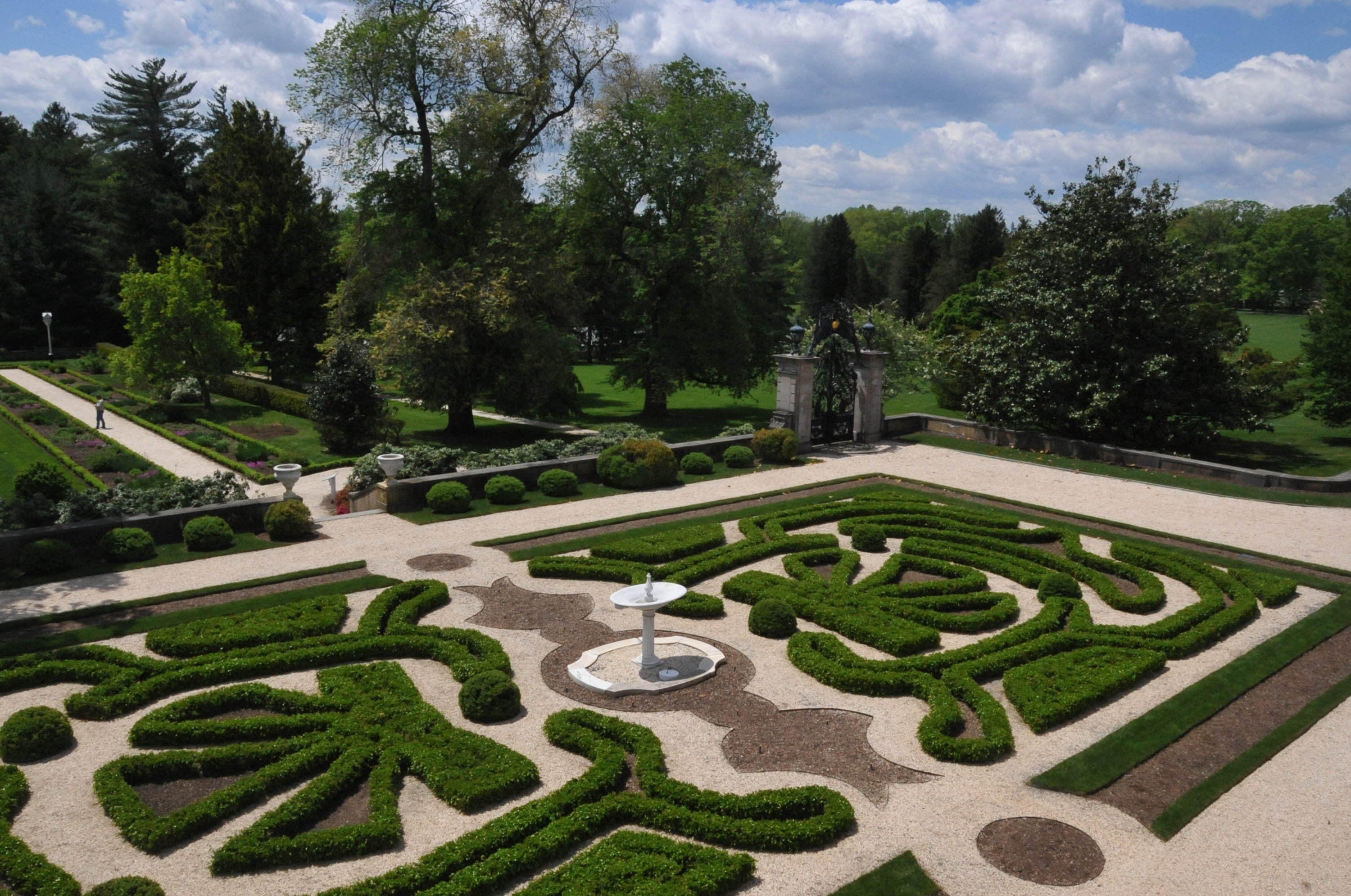 BOXWOOD OR PARTERRE GARDENS FROM MRS. DUPONT’S SITTING ROOM